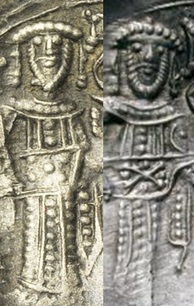 Two details of coin pictures of Alexius III. Anglus-Comnenus